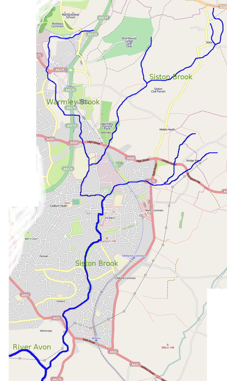 Diagrammatic map of the Siston and Warmley Brooks in South Gloucestershire, England